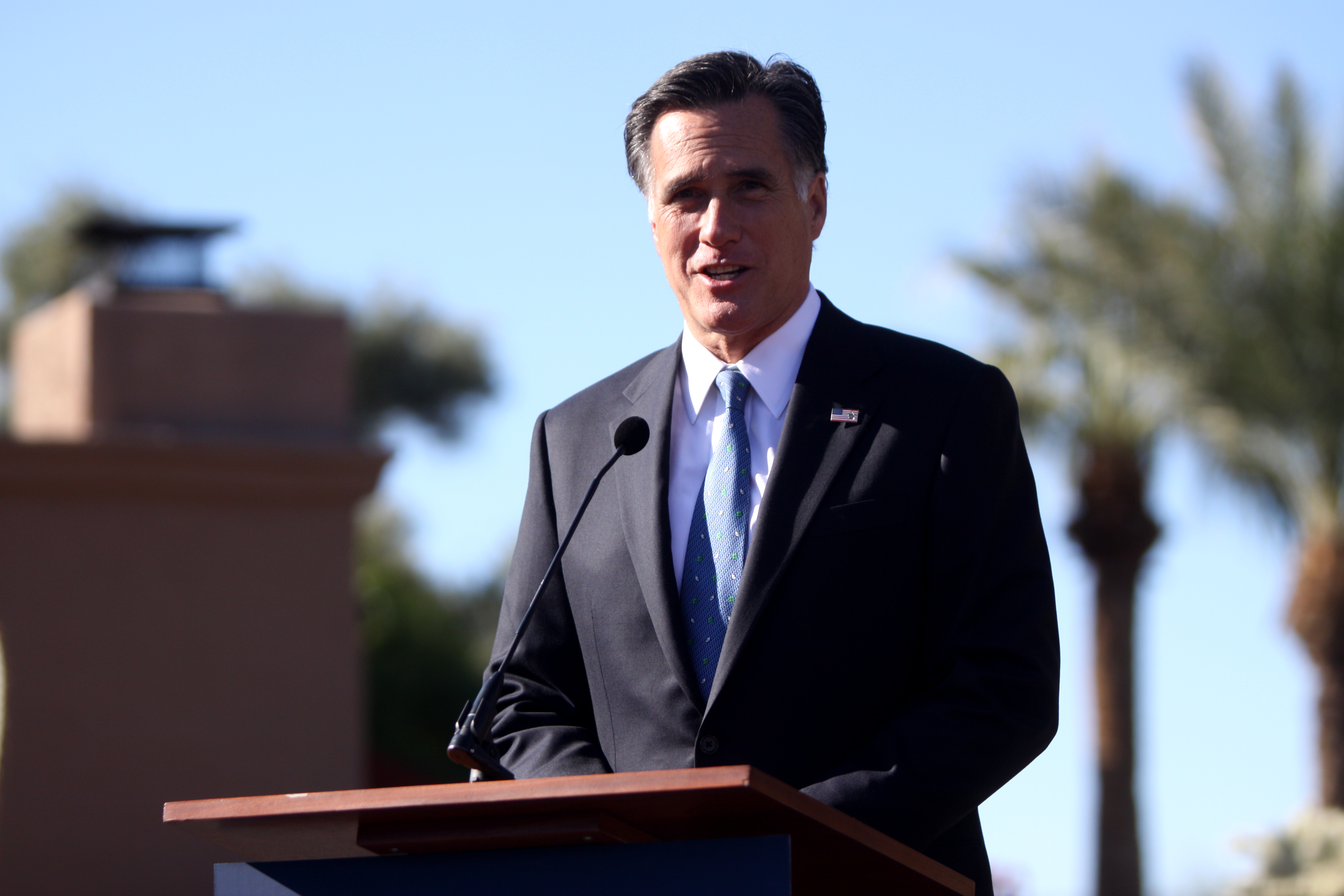 Former Governor Mitt Romney at a supporters rally in Paradise Valley, Arizona.